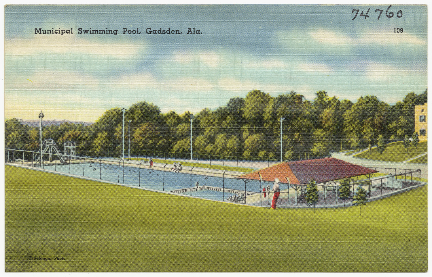 File name: 06_10_012874 Title: Municipal swimming pool, Gadsden, Ala. Created/Published: Date issued: 1930 - 1945 (approximate) Physical description: 1 print (postcard) : linen texture, color ; 3 1/2 x 5 1/2 in. Genre: Postcards Subject: Sports & recreation facilities Notes: Title from item. Collection: The Tichnor Brothers Collection Location: Boston Public Library, Print Department Rights: No known restrictions